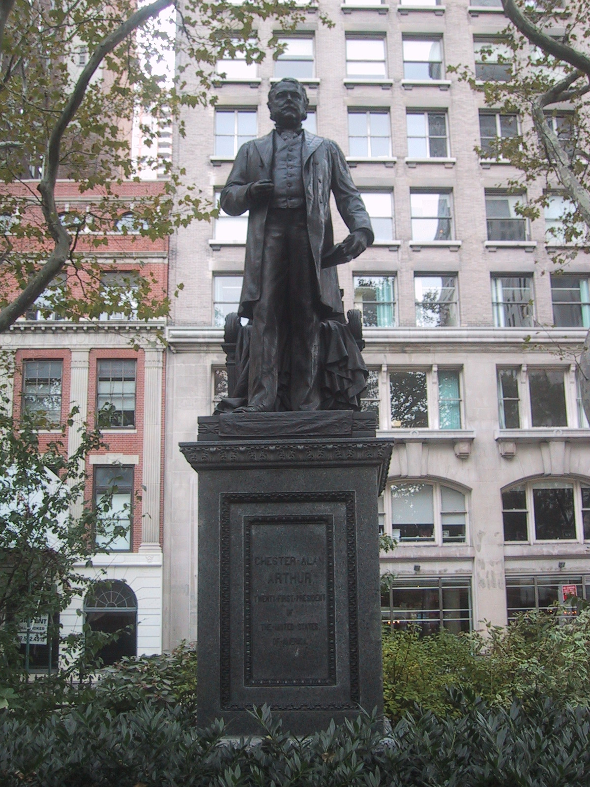 Monument to Chester Arthur at Madison Square, NYC. Sculptor George Edwin Bissell (1839-1920).